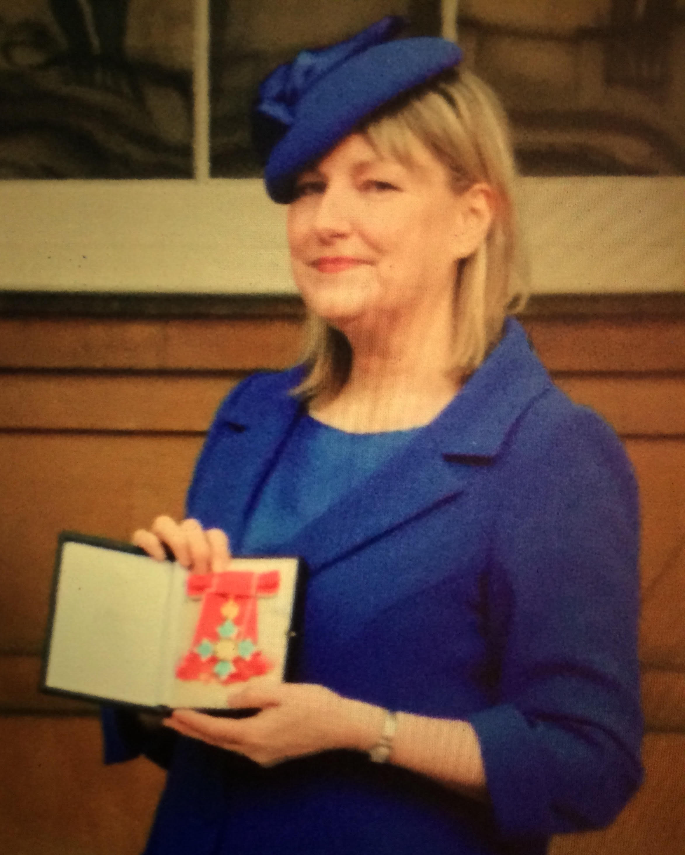 McConnell receives CBE at Buckingham Palace in 2015